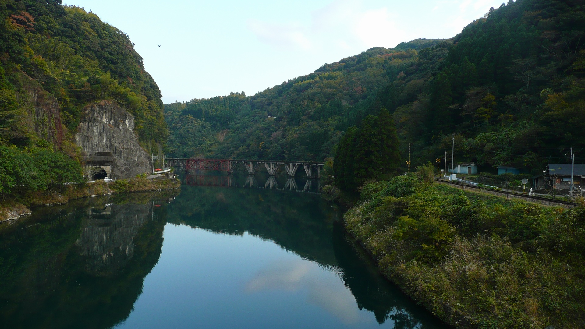 Takachiho Railway - "3rd Gokase River Bridge" (Hinokage Town, Miyazaki, Japan)